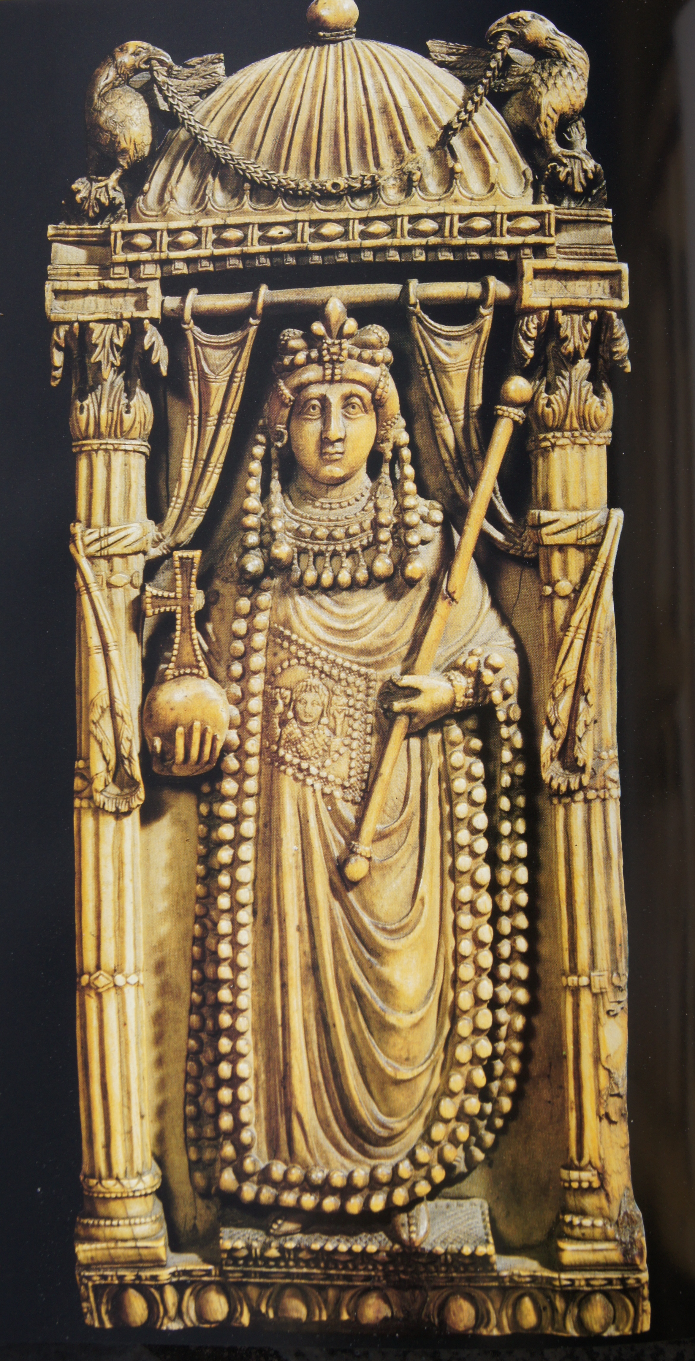 Empress Ariane (or Ariadne); ivory from Constantinople, 6th century. Museum of Bargello, Florence, Italy.